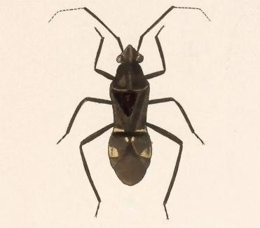 Biologia Centrali-Americana - Zosippus inhonestus Cut-out from original (Biologia Centrali-Americana (8271469919).jpg) shown below